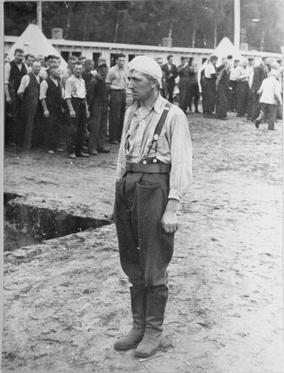 See title